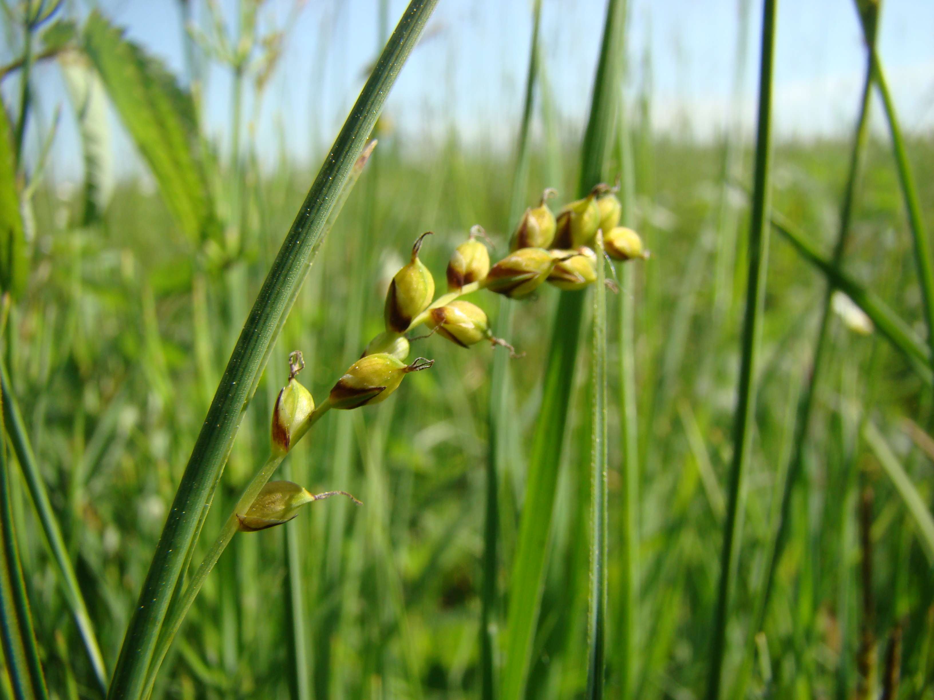 Carex panicea (Poland - Lower Silesia)